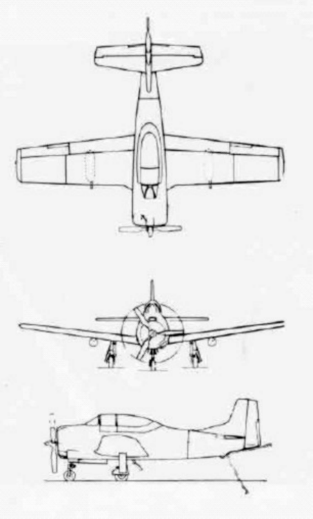 Line drawings for the North American T-28C Trojan.